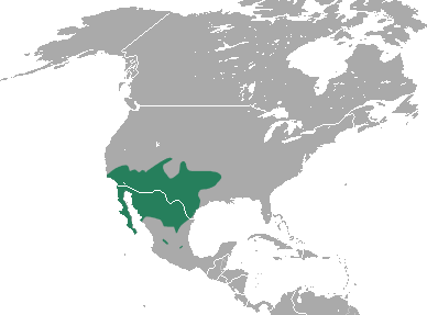 Crawford's Gray Shrew (Notiosorex crawfordi) range